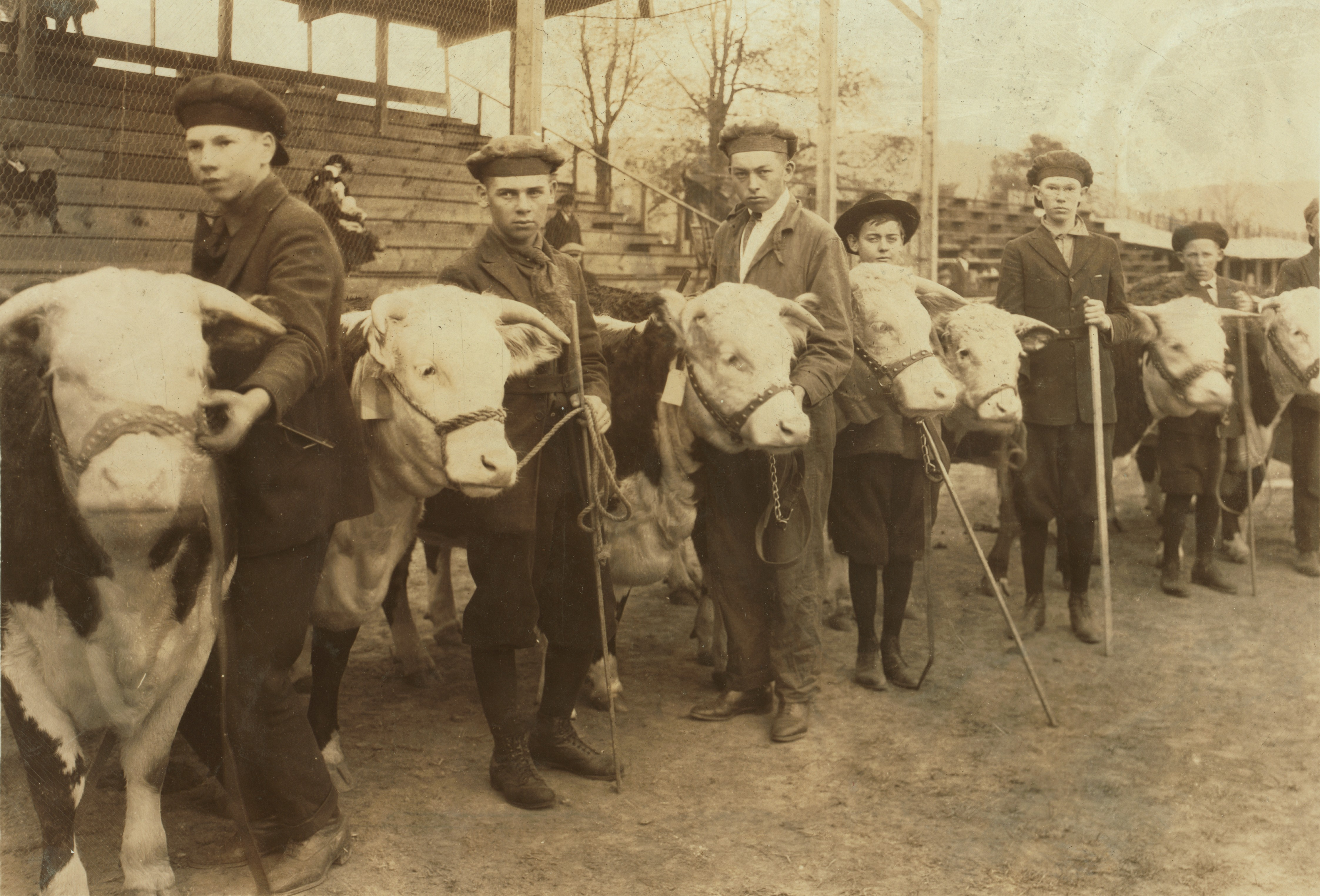 Boys judging prize heifers at 4 H Club Fair at Charleston, W. Va.